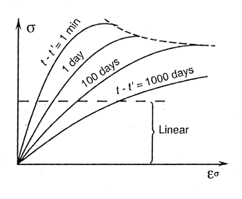 Creep And Shrinkage of Concrete